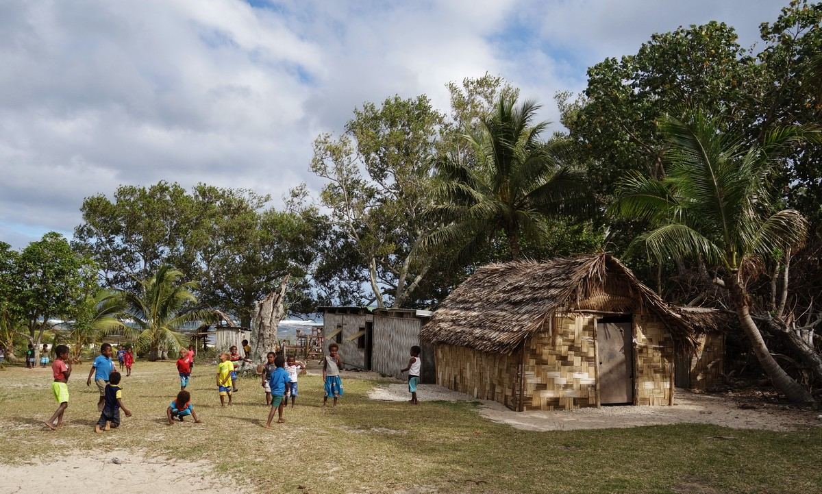 Kindergarden of the Lowanatom catholic mission.